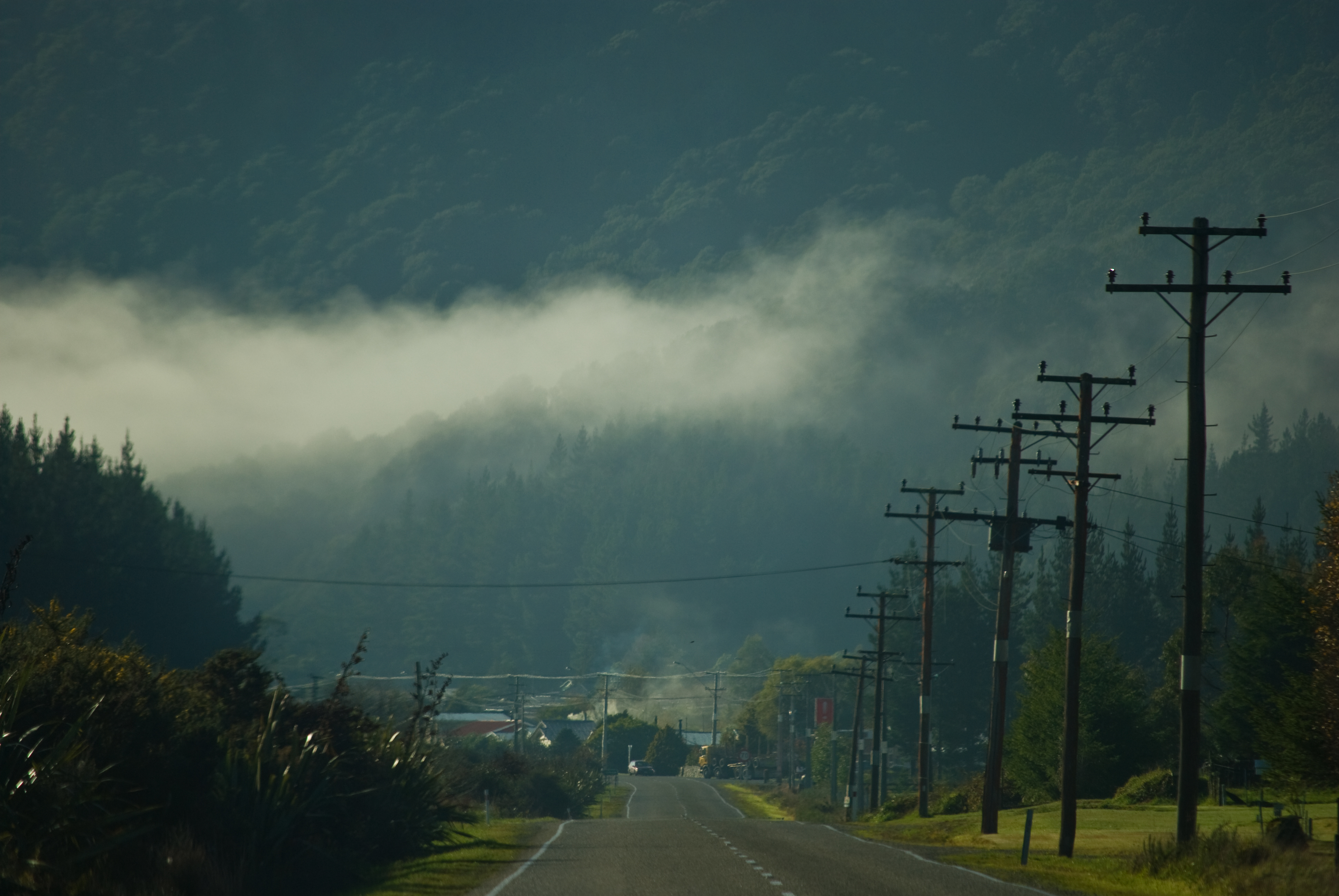 Near Dobson, on the West Coast of New Zealand.